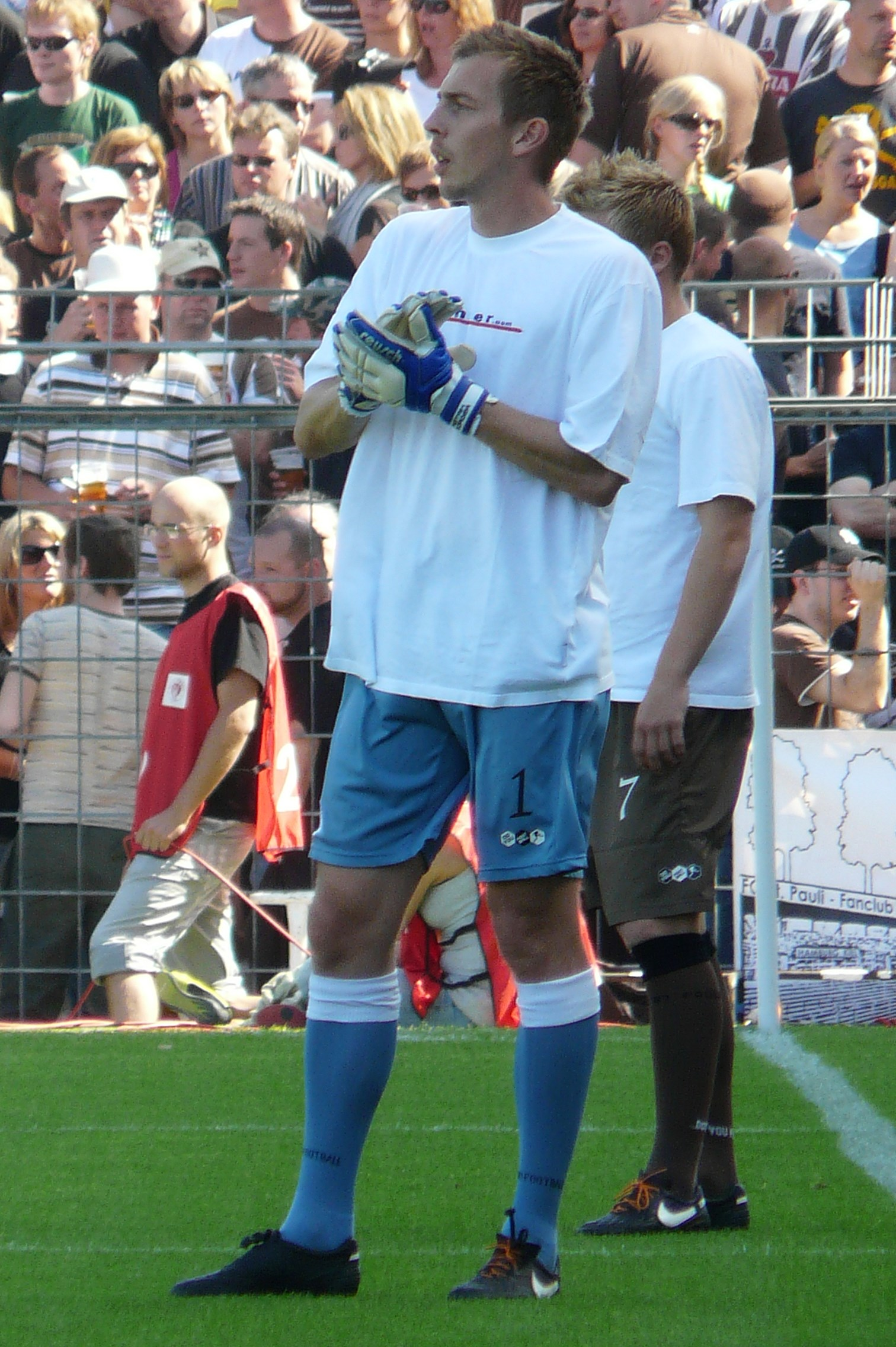 Patrik Borger as Player from FC St. Pauli